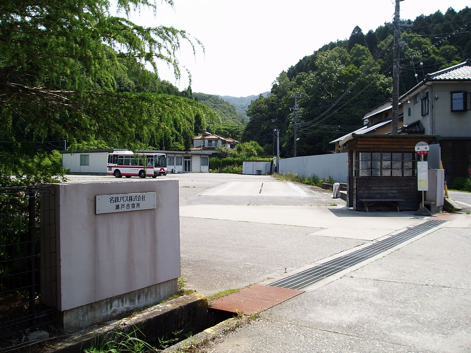 Meitetsu Bus Seto Dormitory (formerly Seto Depot)